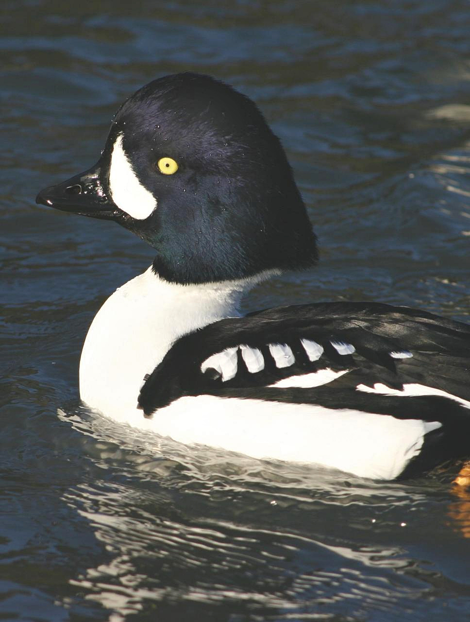 Bucephala islandica, captive, Arundel WWT collection, England